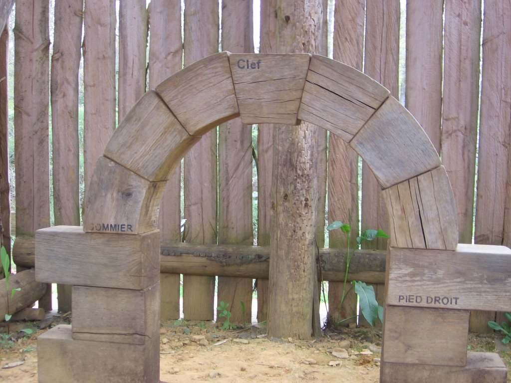 Parts of round arch in the medieval building site of Guédelon : keystone, impost...